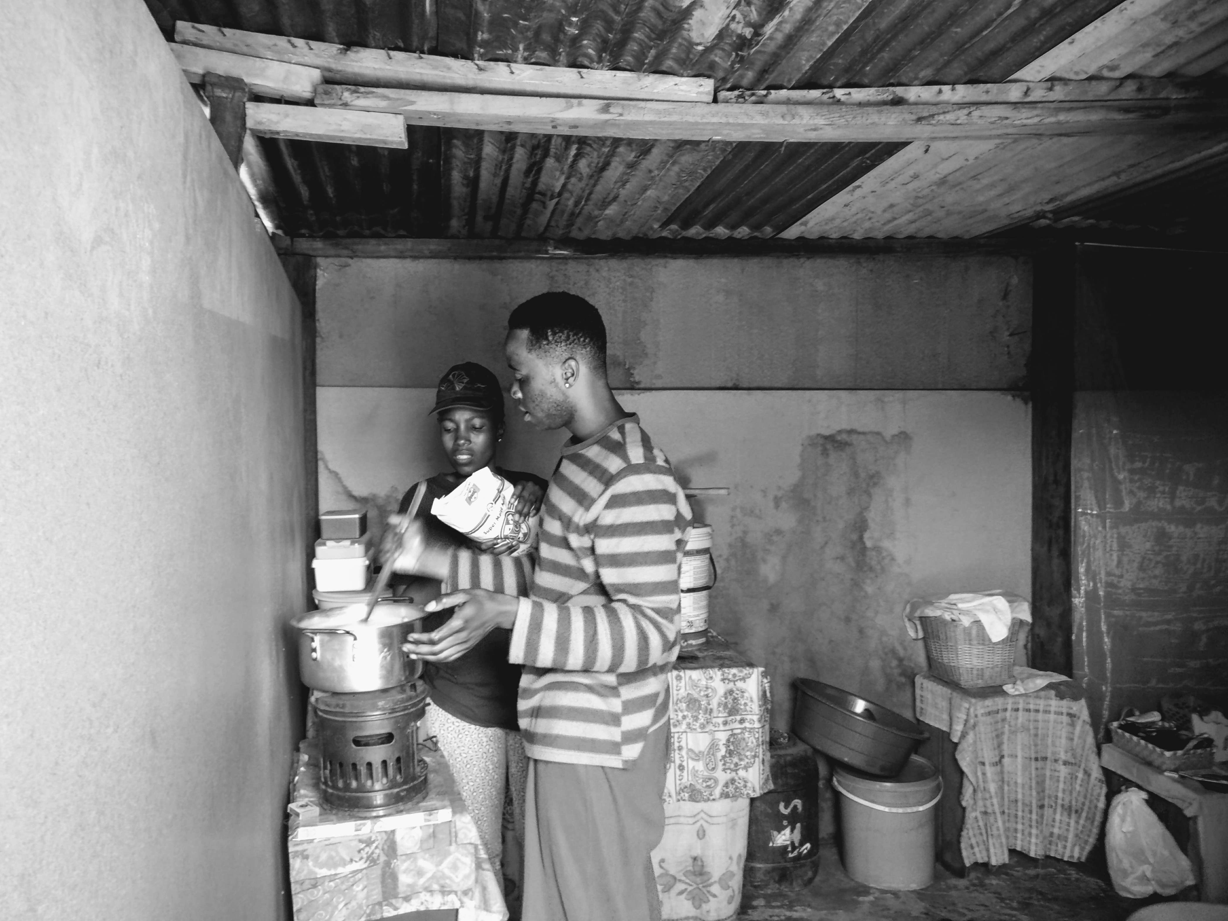 Tandi and Anderson, two young people and way too smart to not study. Sadly, they can't afford going to college or university. They are making traditional pap in their home kitchen. This is an image of "African people at work" from South Africa